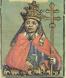 Wood cut from the Nuremberg Chronicle (Latin copy in Sao Paulo)